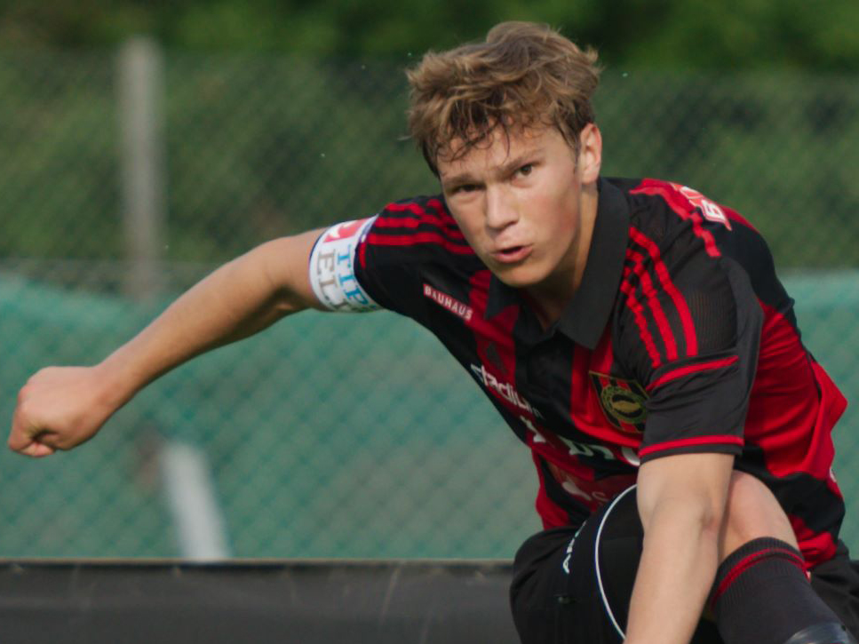 Allsvenskan IF Brommapojkarna-Malmö FF at Grimsta IP